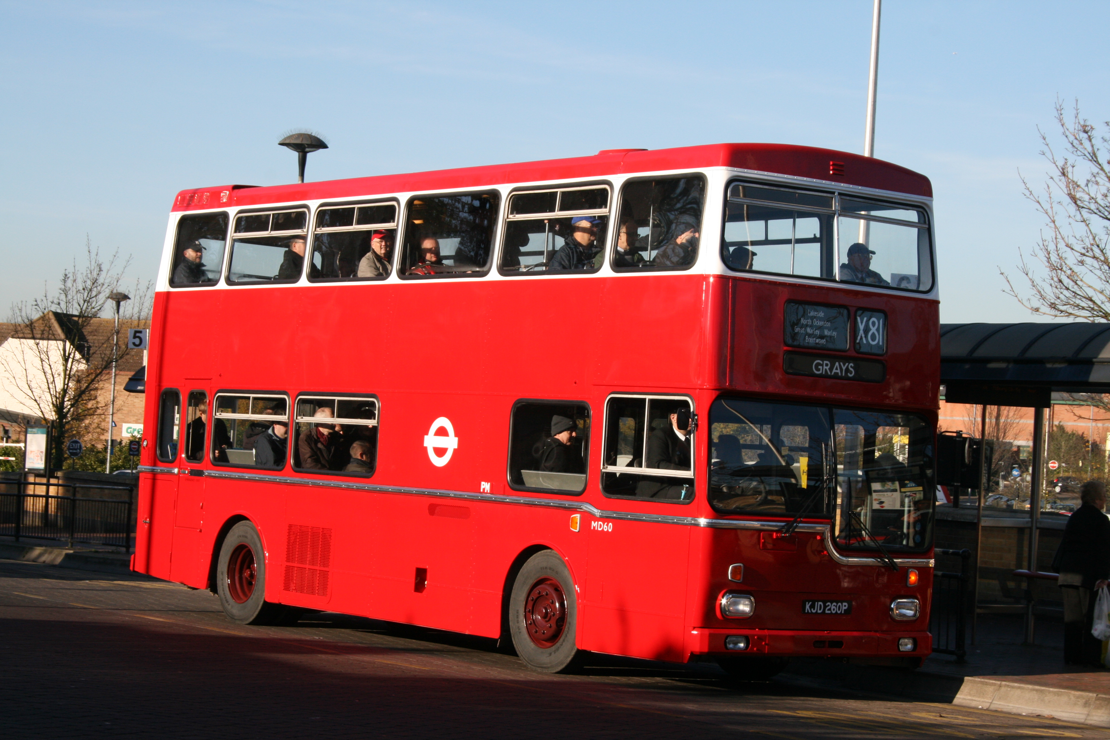 Ensignbus MD60 (KJD 260P) on Route X81, Grays